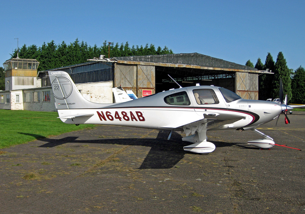 Cirrus SR22T N648AB at Tatenhill Airfield, Staffs, England, in 2012